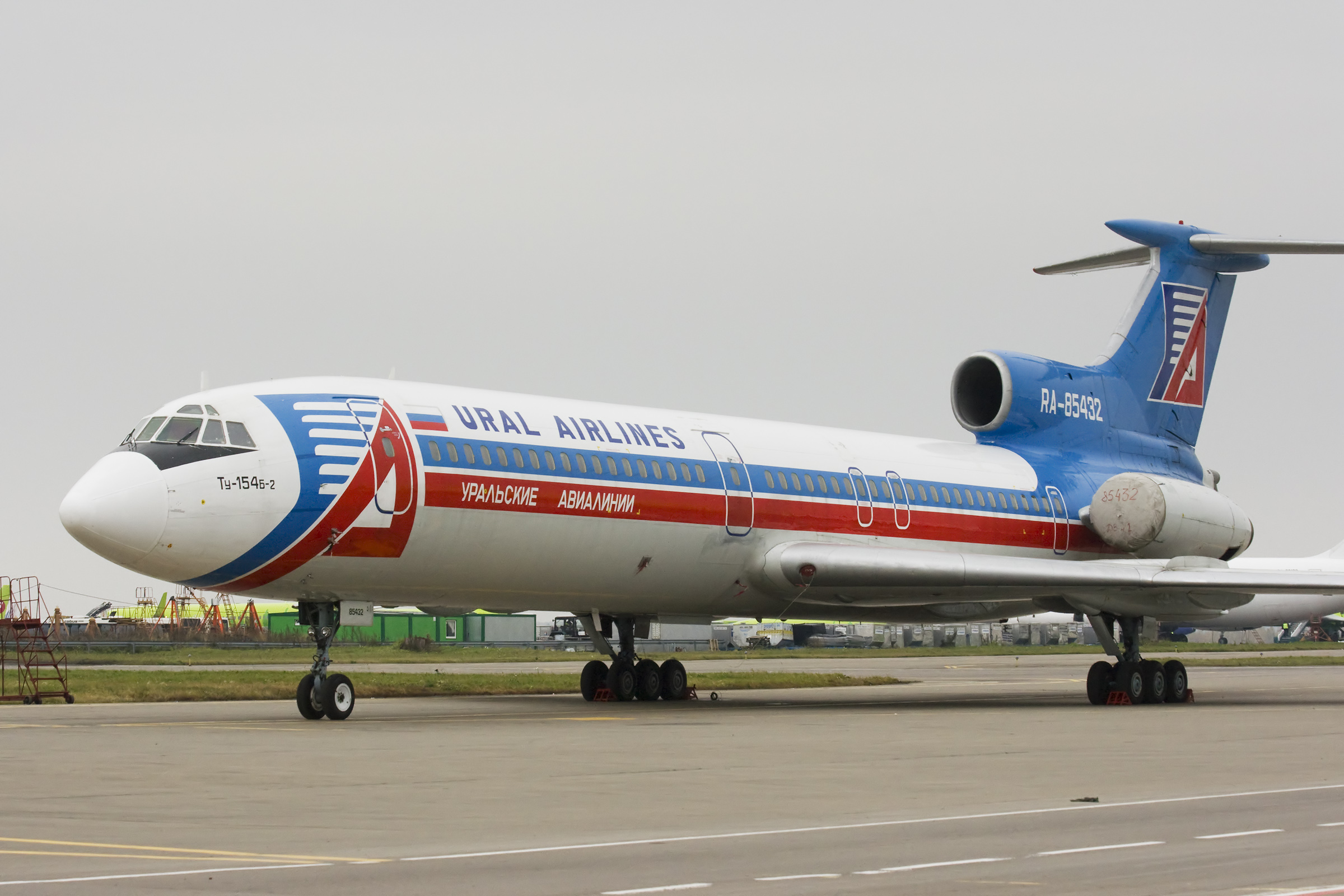 Ural airlines Tu-154 at Domodedovo airport